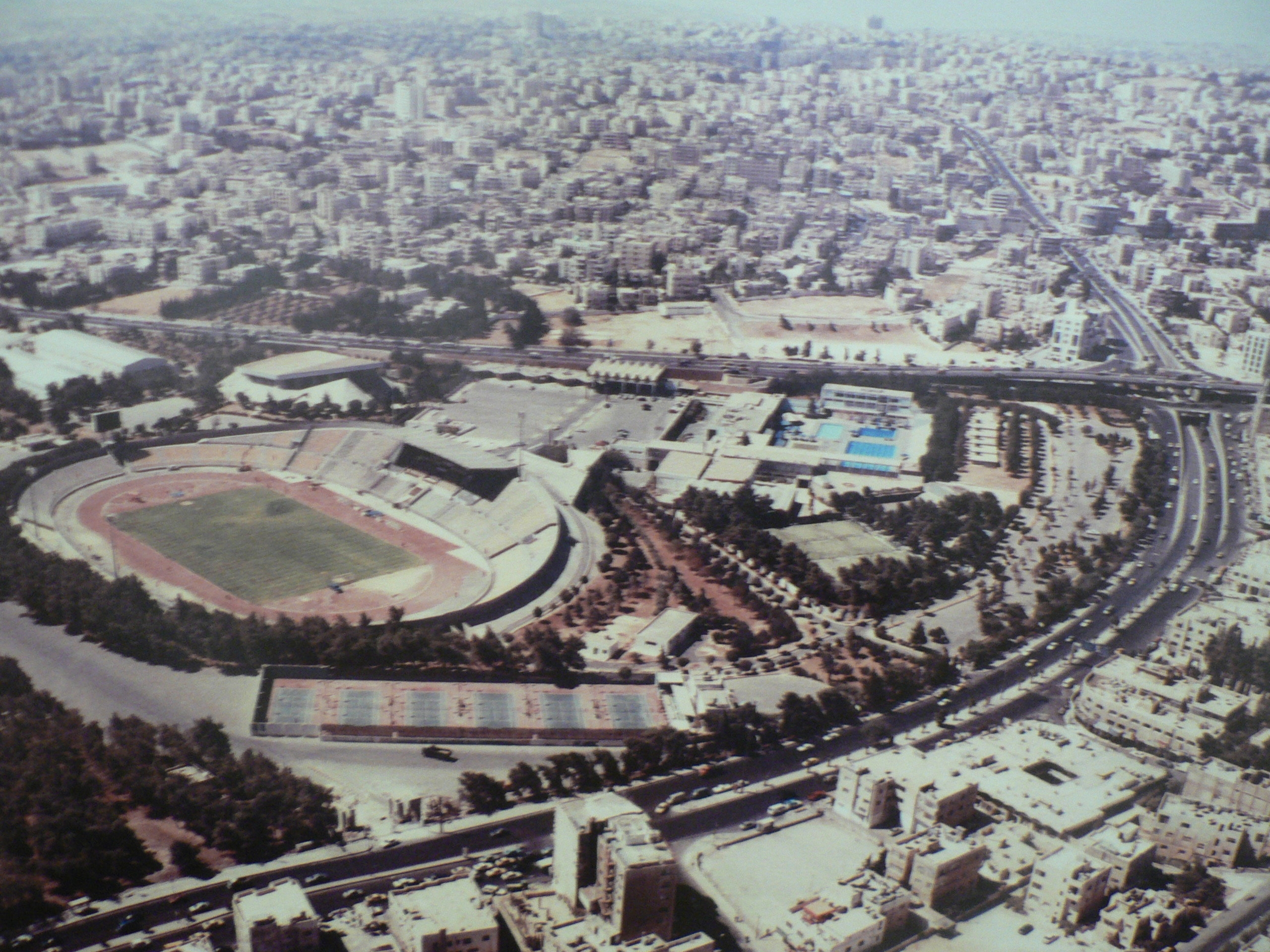 Sprt City Amman